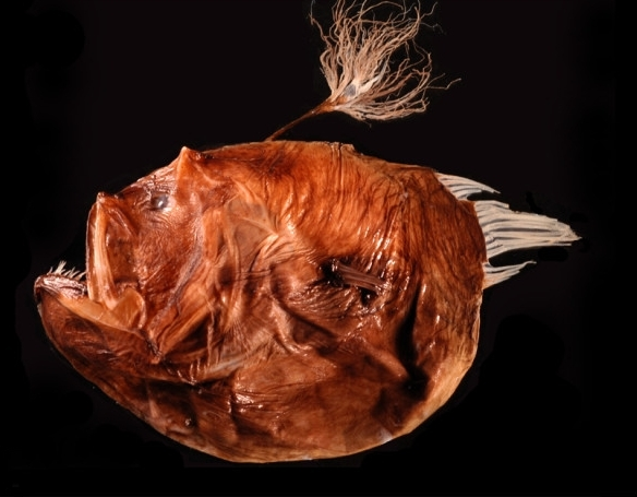 Cut-out from original shown below